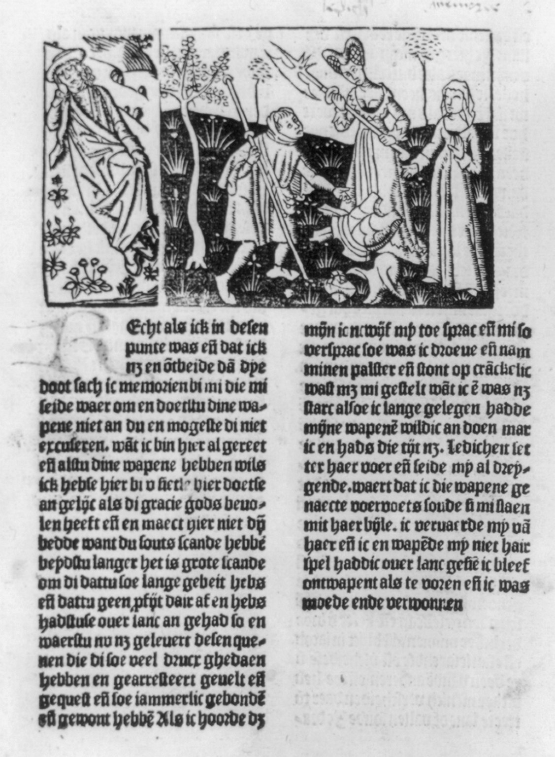 Title: Pilgrim dreaming he is discarding armor under ax held by woman Abstract/medium: 1 print : woodcut.